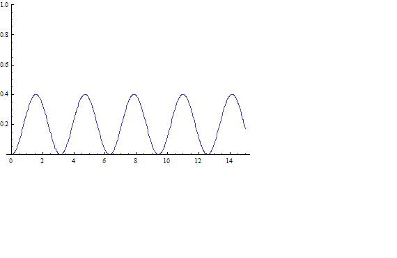 {Information Licensing Category:Quantum mechanics